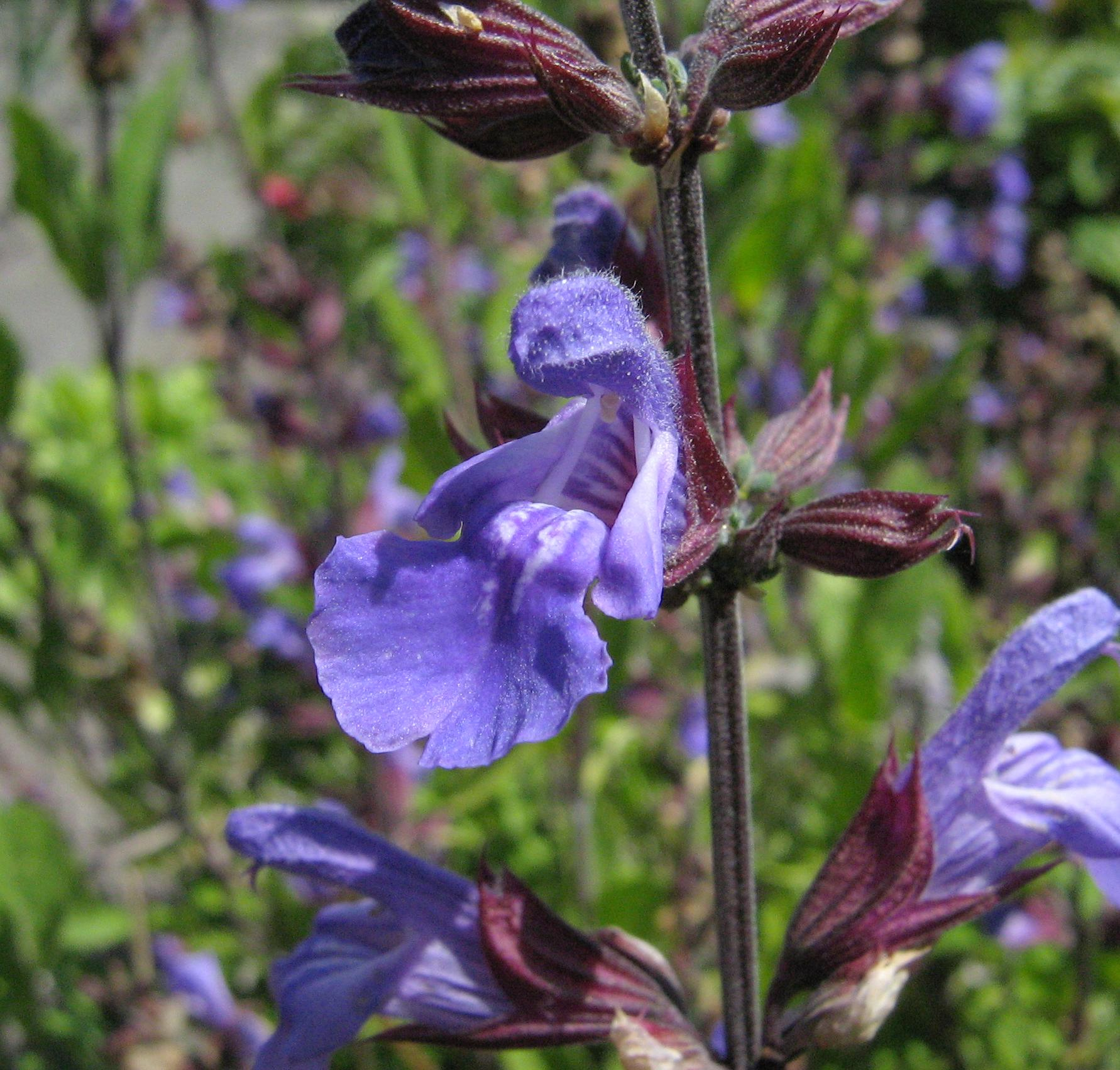 Salvia officinalis (Common sage), a single flower